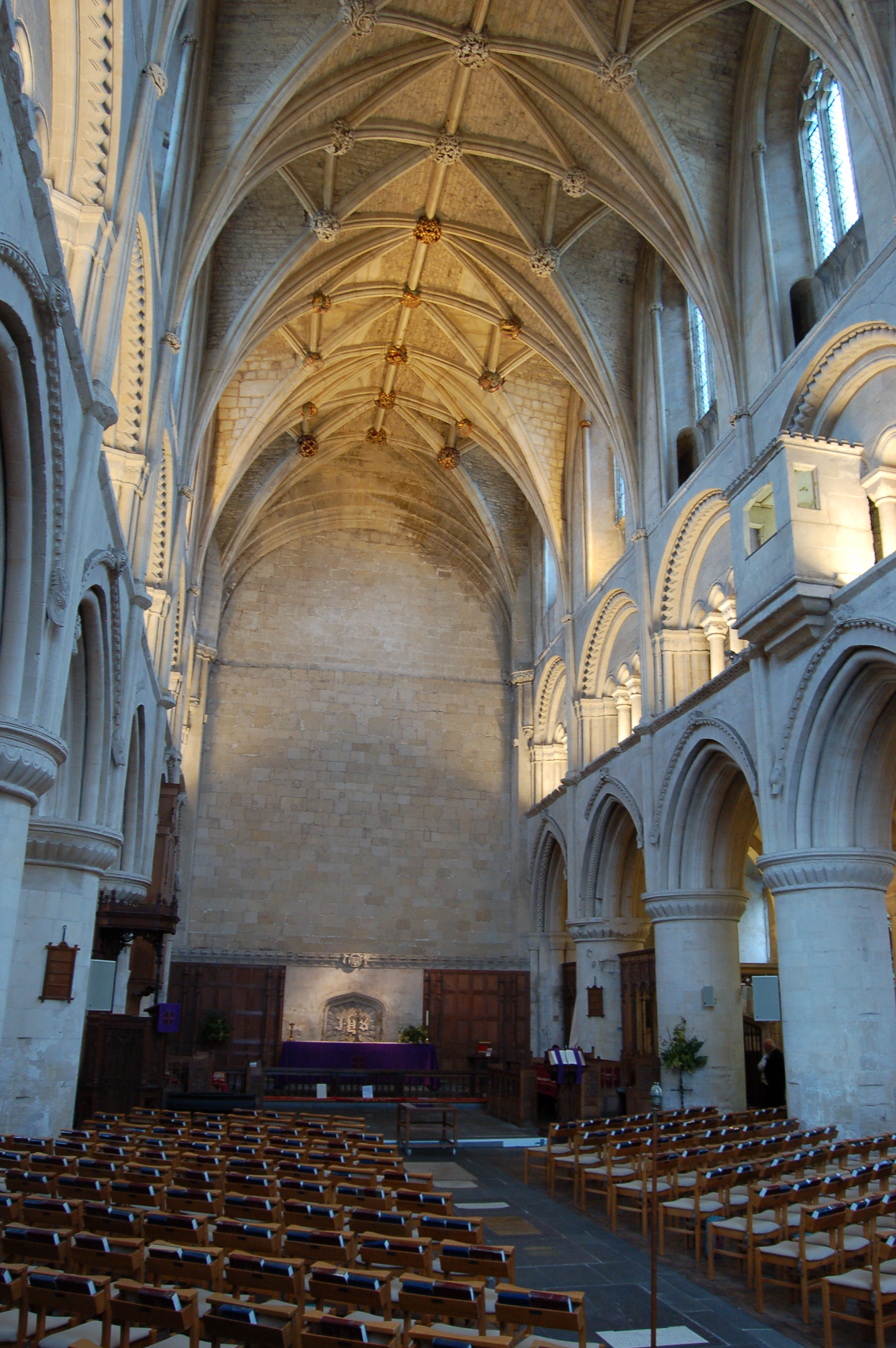 Interior of Malmesbury Abbey